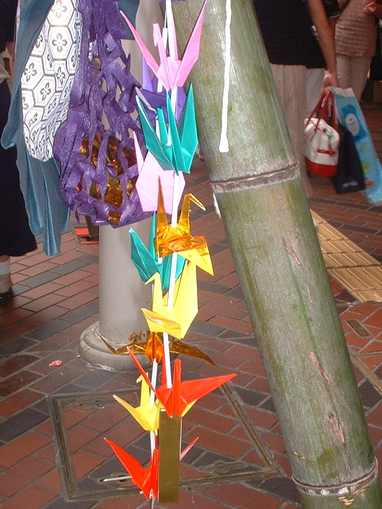 Image of a paper crane (orizuru) Tanabata decoration, photographed during the Sendai Tanabata Festival, held at Sendai, Miyagi Prefecture, Japan. I took this photograph on August 7, 2005. This image is multi licensed under the GNU Free Documentation License and the Creative Commons Attribution-ShareAlike 2.0 license.